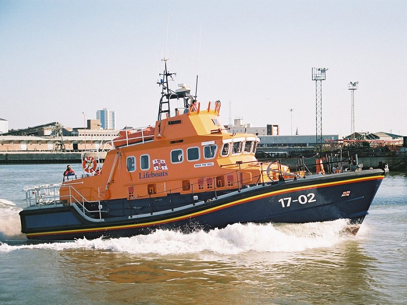 17-02 The Will was the first production Severn class lifeboat for the RNLI. This has always been a part of the relief fleet except from 1997 to 2001 when it was stationed at Falmouth.